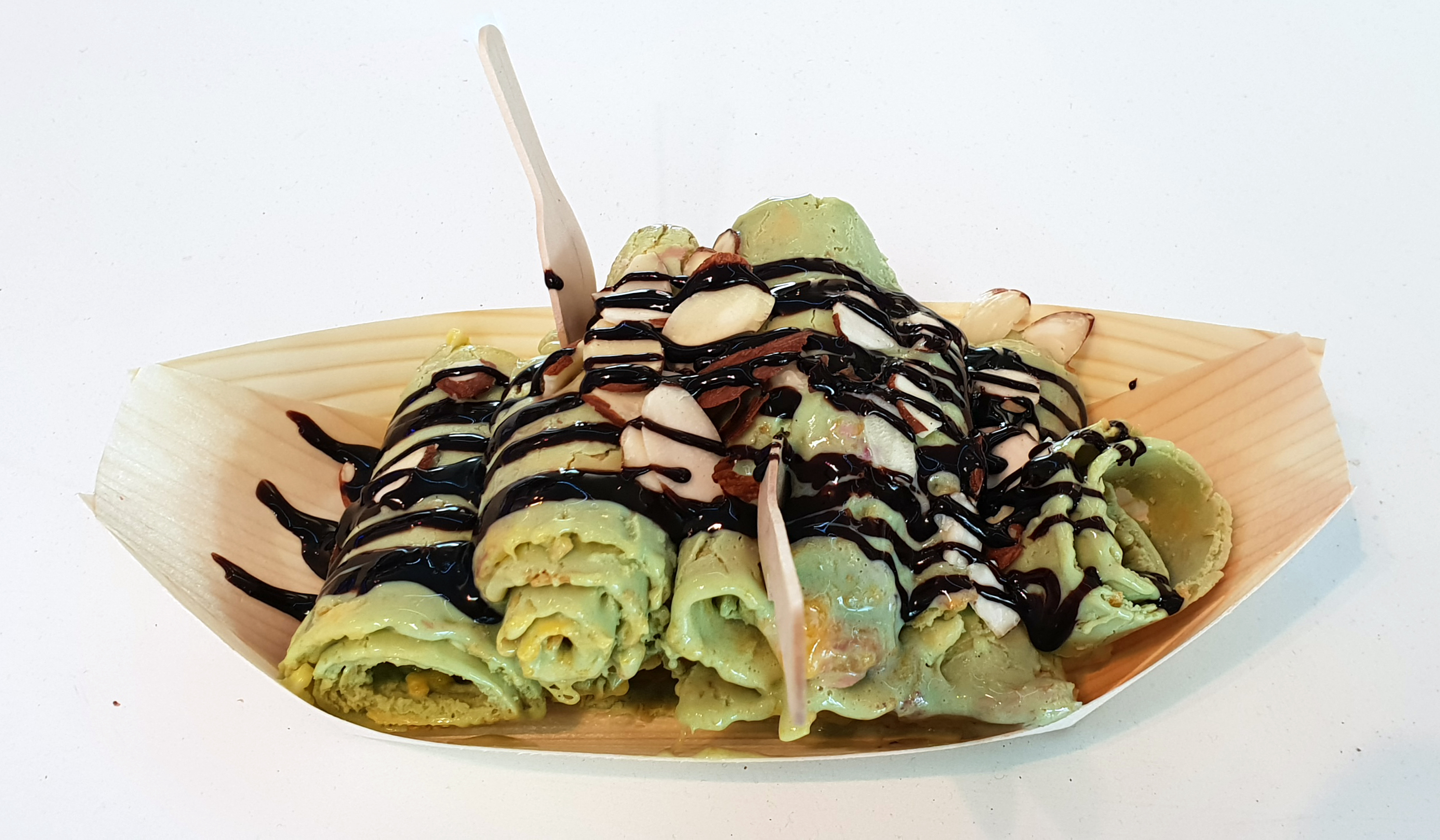 Rolled (Stir-fried) icecream in the City of Nelson, New Zealand